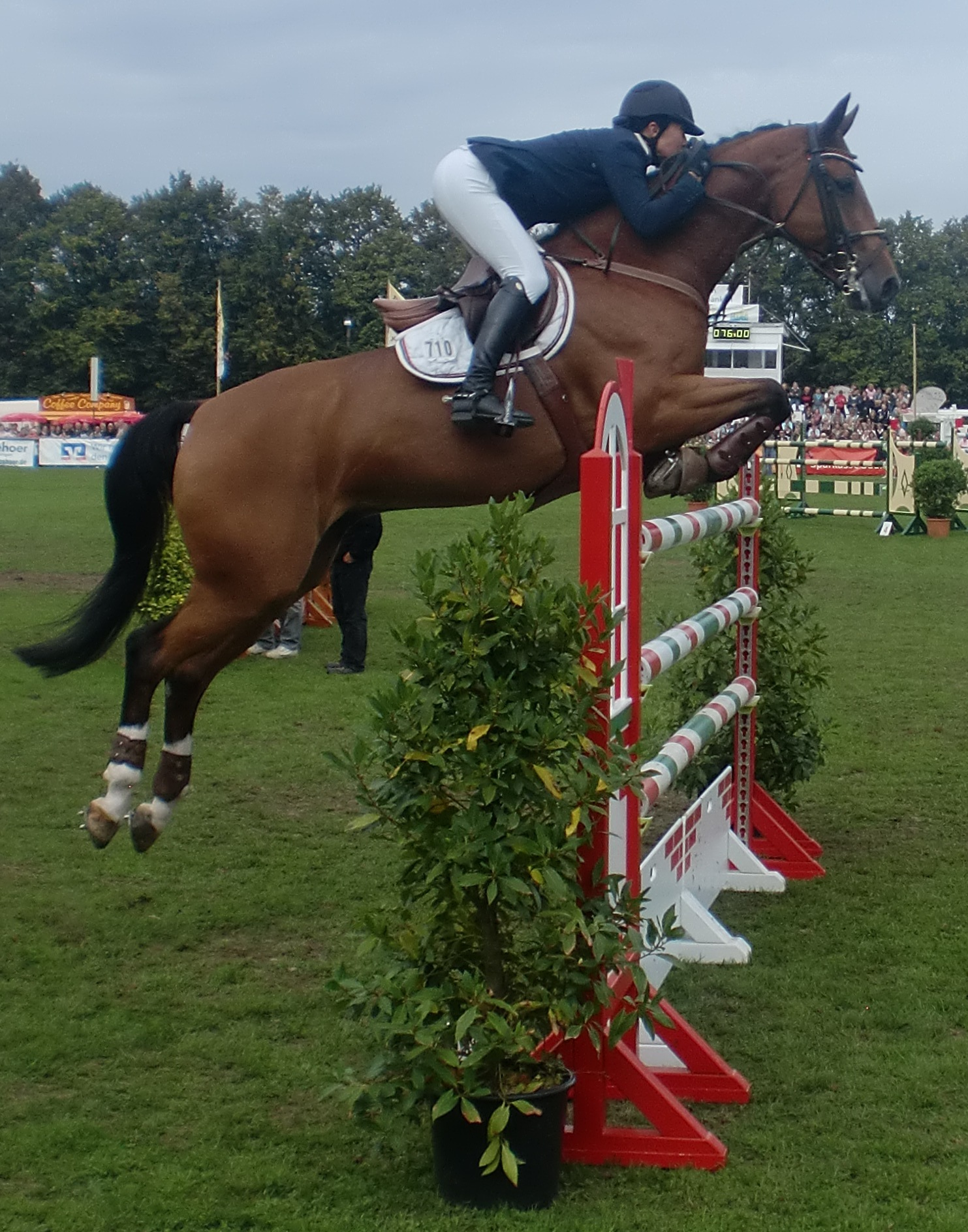 Mylene Diederichsmeier and Lafarello, Landesturnier Schleswig-Holstein / Hamburg (state championship of Schleswig-Holstein and Hamburg in Bad Segeberg, September 2010